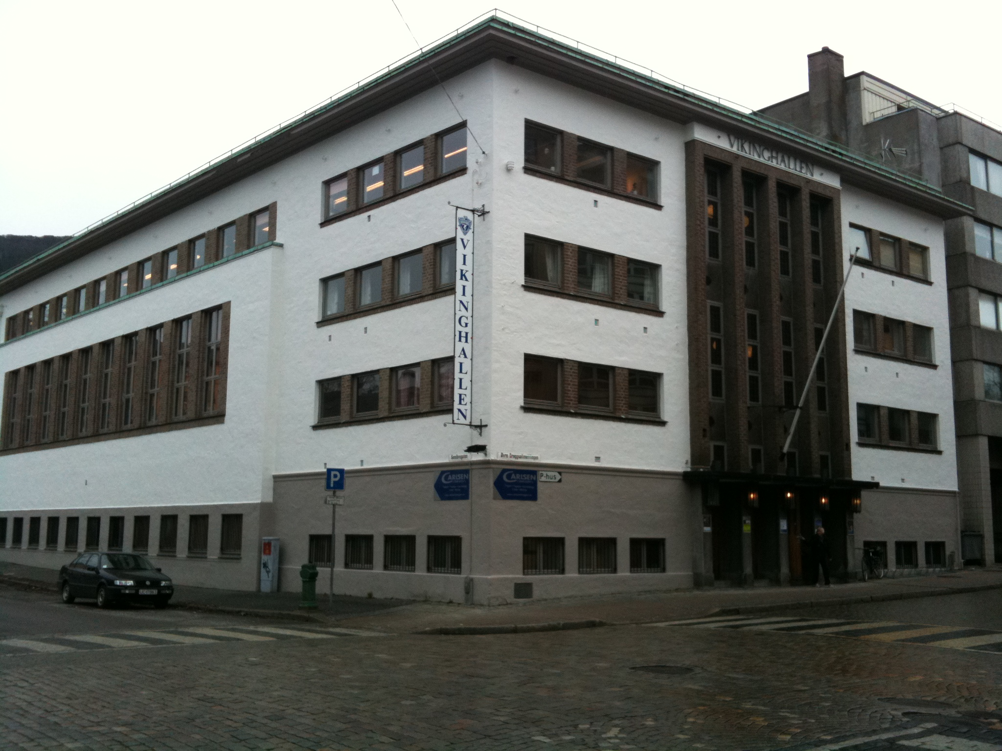 Vikinghallen in Bergen, Norway